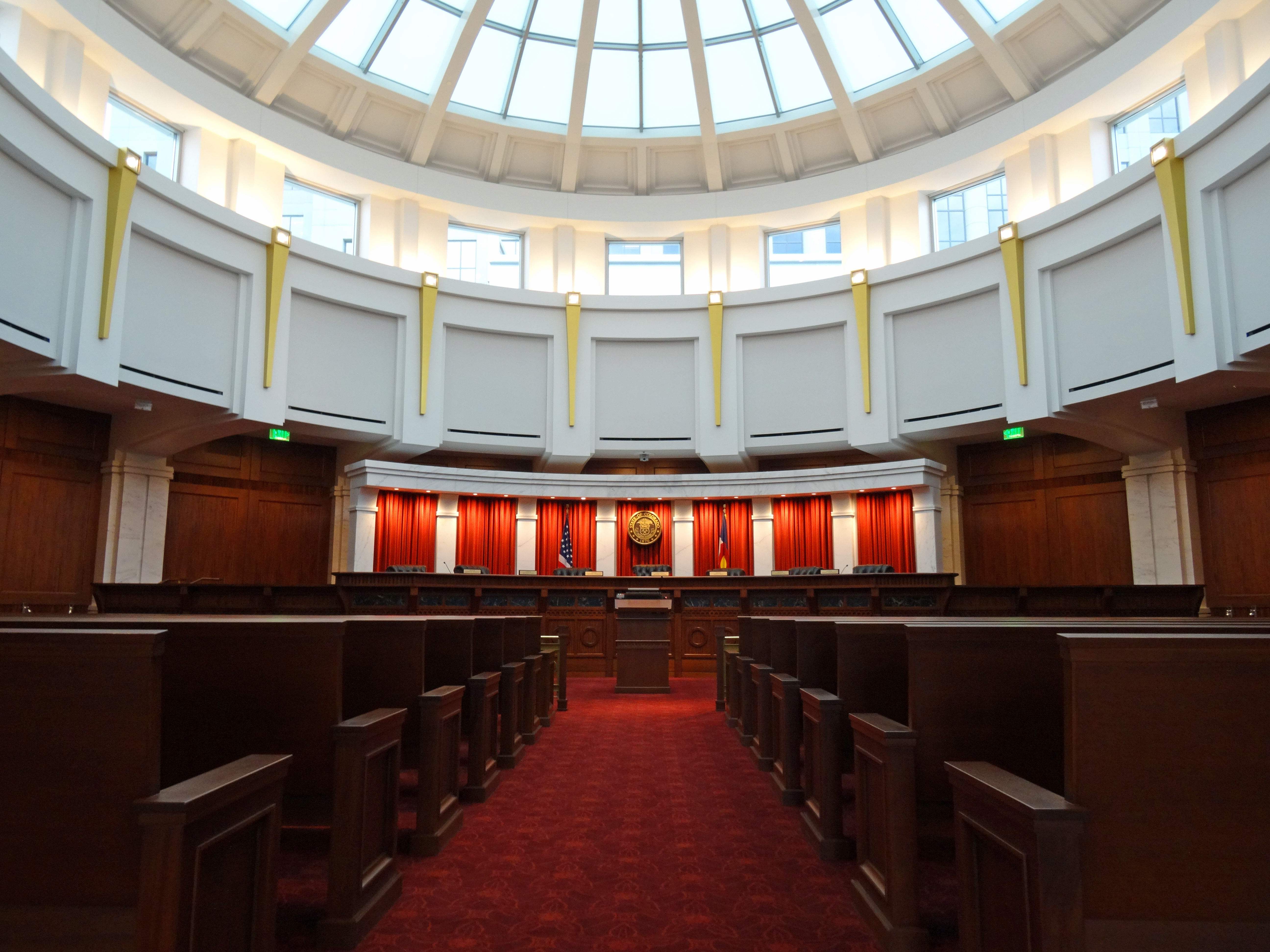 The Colorado Supreme Court courtroom, located on the fourth floor of the Ralph L. Carr Colorado Judicial Center, located at 2 East 14th Avenue in Denver, Colorado.